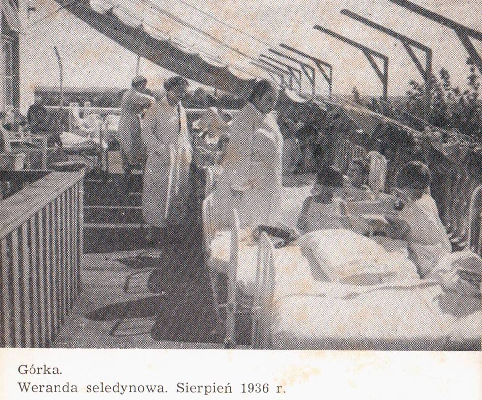 Child's Sanatorium in Busko-Zdrój "Górka", ca1936